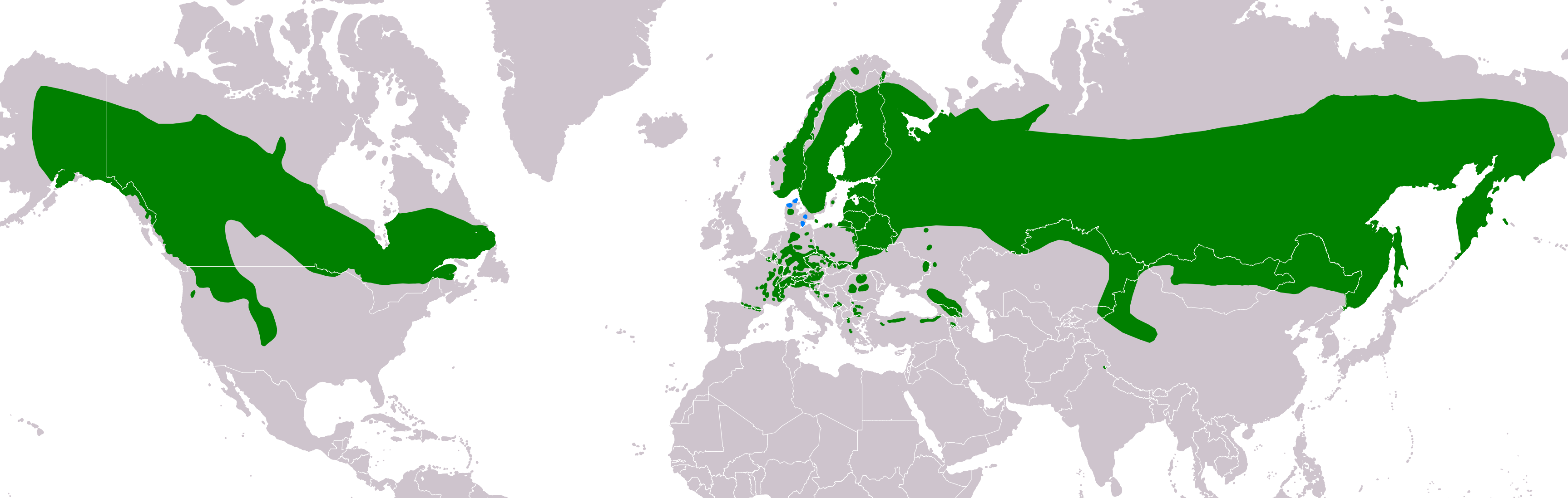 The distribution map of boreal owl (Aegolius funereus) according to IUCN version 2019.1; key: Legend: Extant, resident (#008000), Extant, non-breeding (#007FFF)